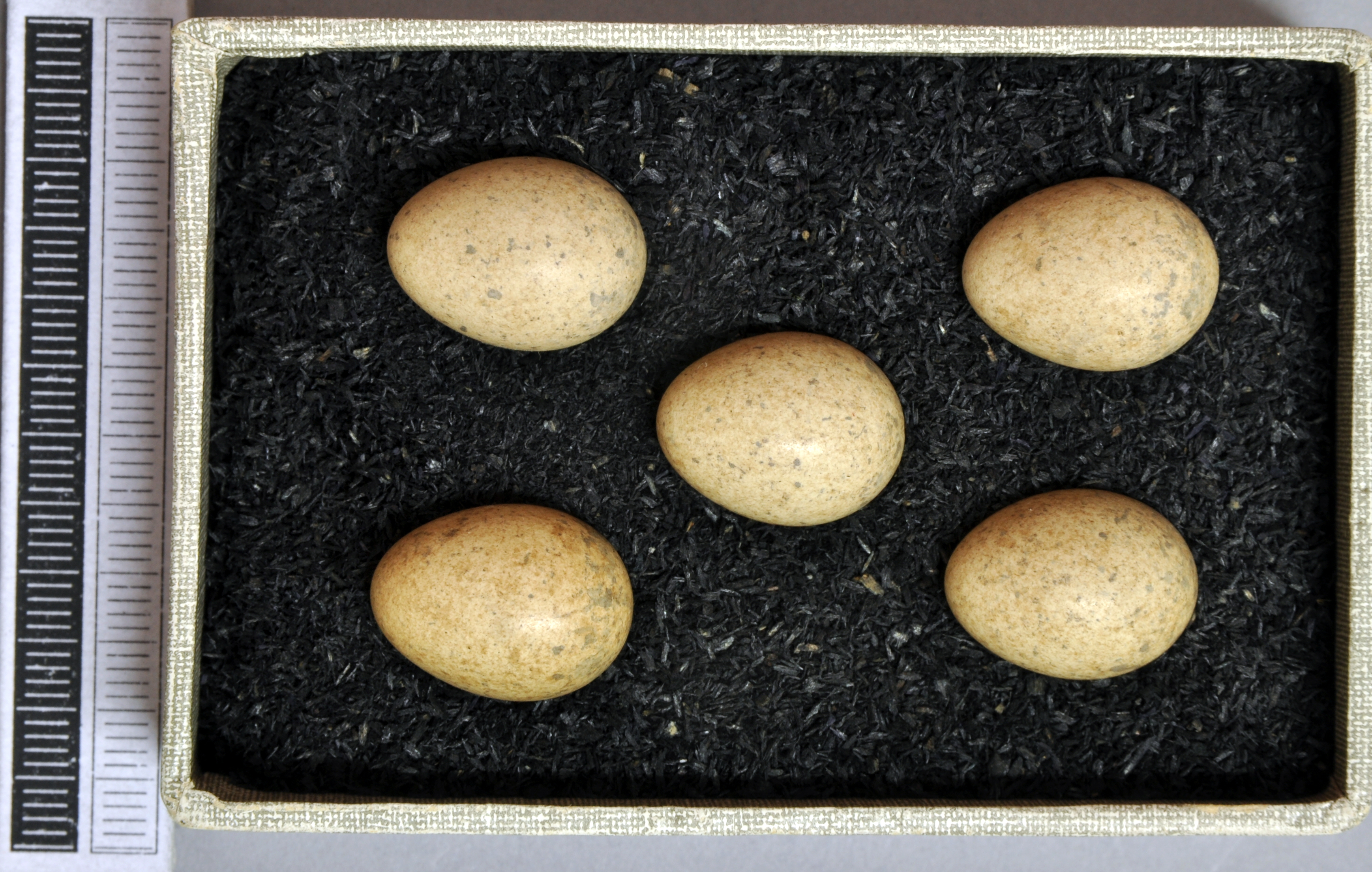 Common whitethroat Sylvia communis , egg, Coll. Museum Wiesbaden